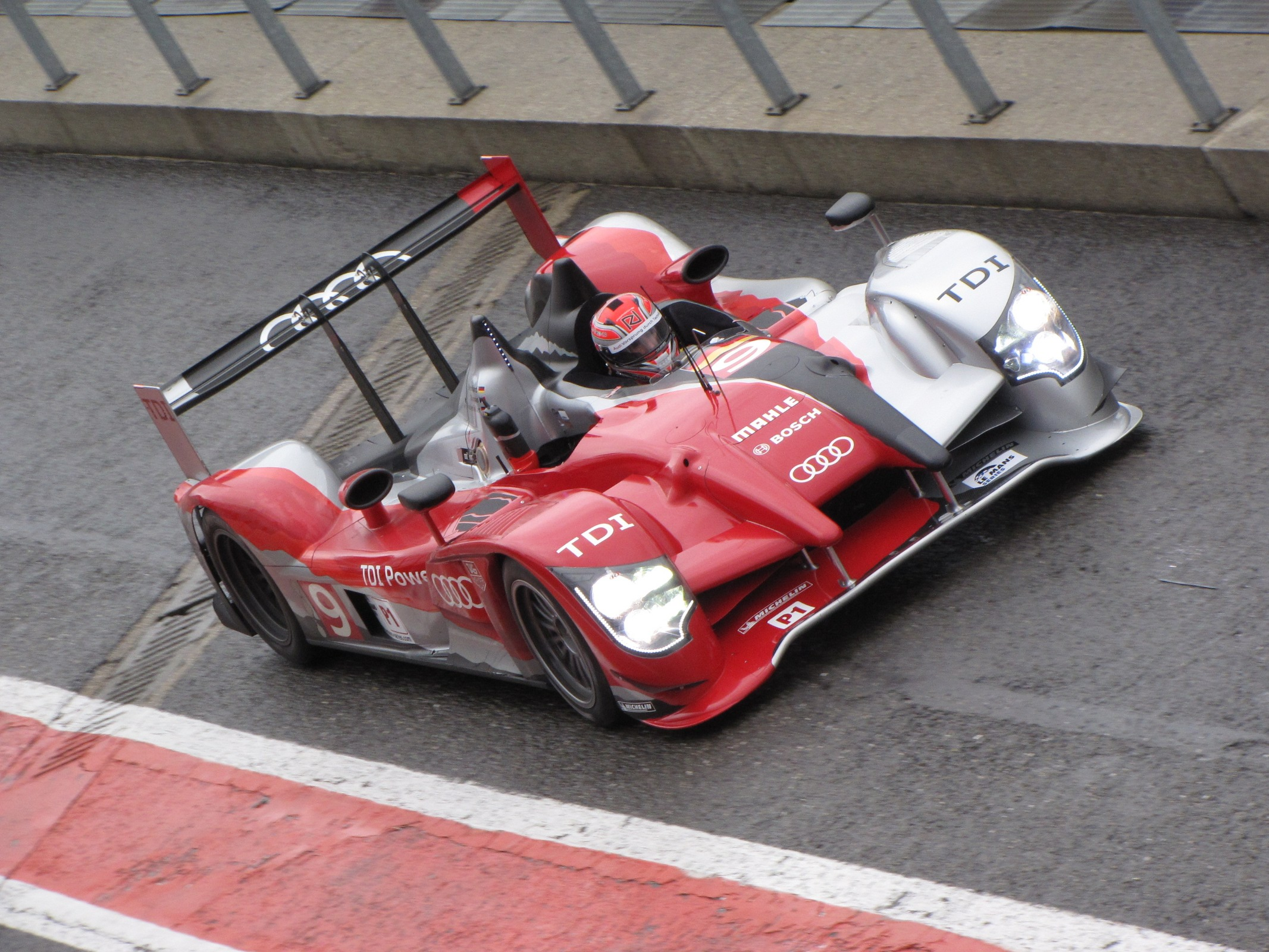 Romain Dumas driving a Audi R15+ at training of 1000 km of Spa 2010.